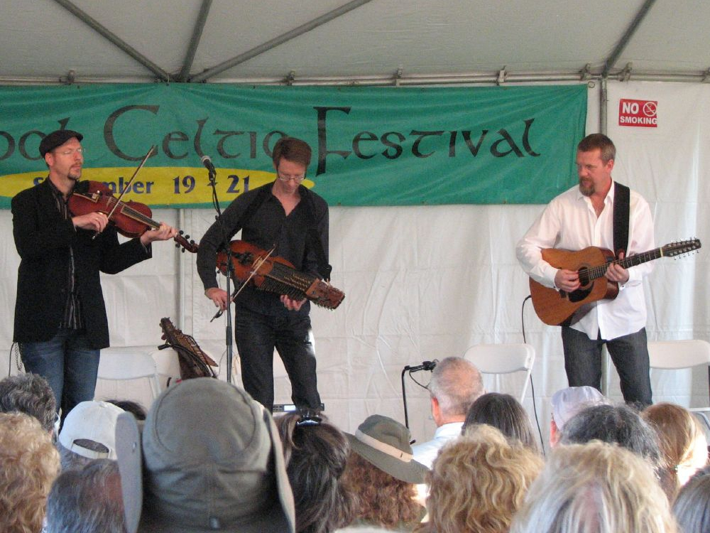 The leading exponents of the traditional music of Sweden at the 2008 Sebastopol Celtic World Music Festival